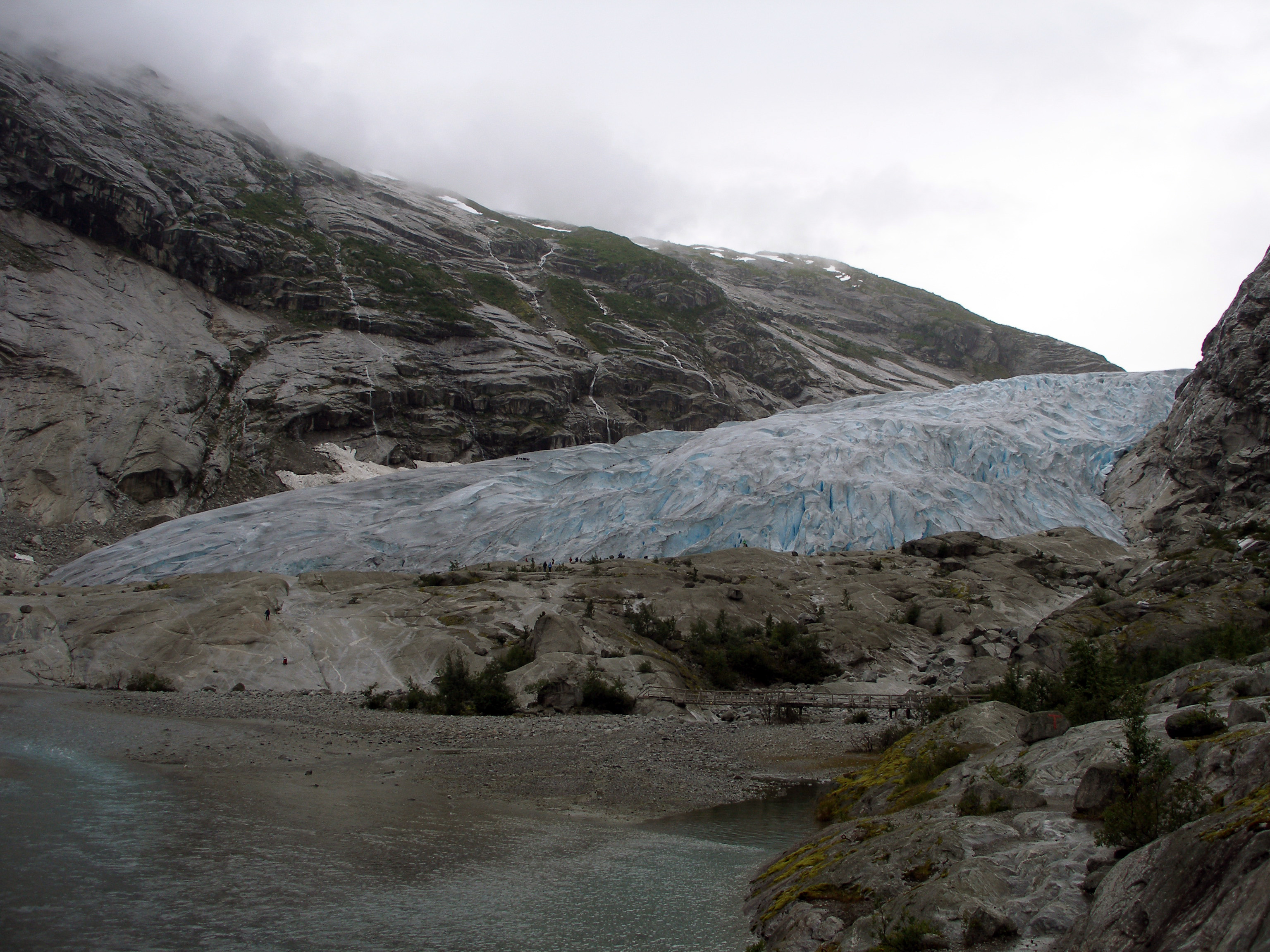 Nigardsbreen - a glacier arm of the large Jostedalsbreen glacier.